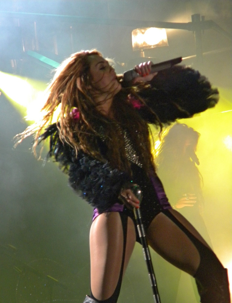 Pop singer Miley Cyrus performing in Bogotá, Colombia as part of her Gypsy Heart Tour in 2011.